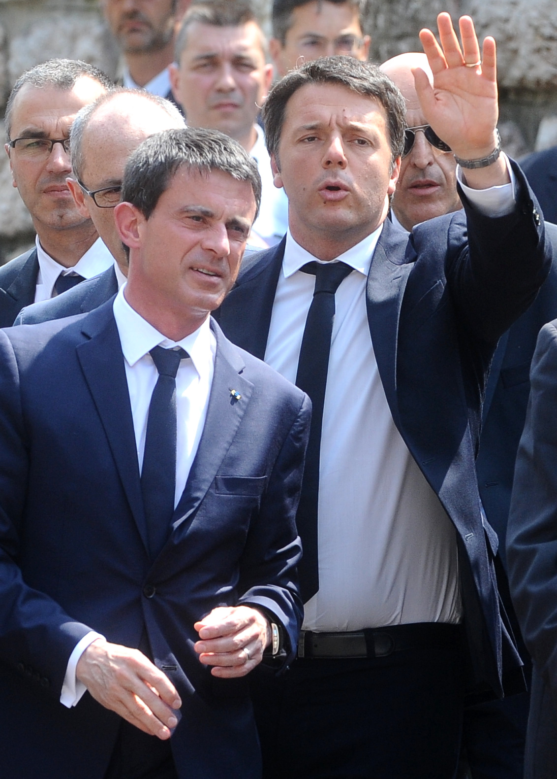 Manuel Valls and Matteo Renzi at the Festival of Economics in Trento